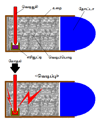 Schematic of the Pin fire cartridge.